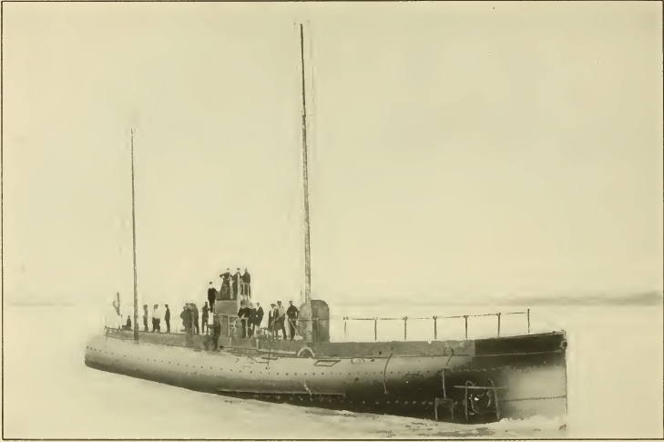 The "Deutschland" Coming Up to Chesapeake Bay on the Way to Baltimore, 1916